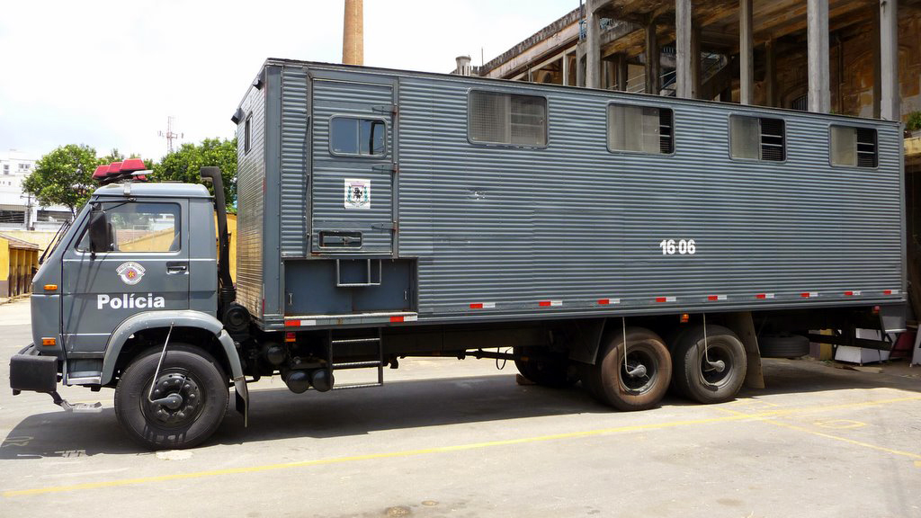 Volkswagen truck belonging to the São Paulo Military Police (PMESP), of the 9th of July Cavalry Regiment.